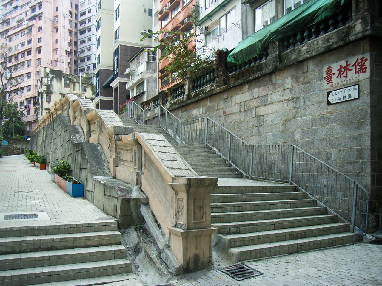 Photographer & author: User:BITBITSW 裕林臺，以前又稱為儒林臺，是香港香港島zh:上環的一條街道，於zh:香港醫學博物館之下。